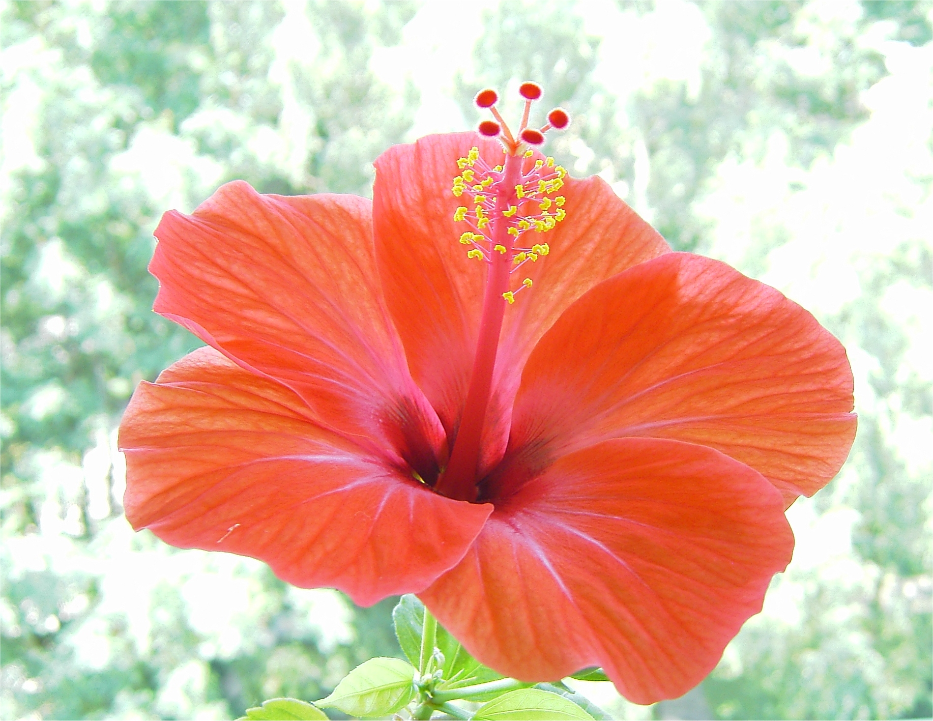 Hibiscus rosa-sinensis flower.